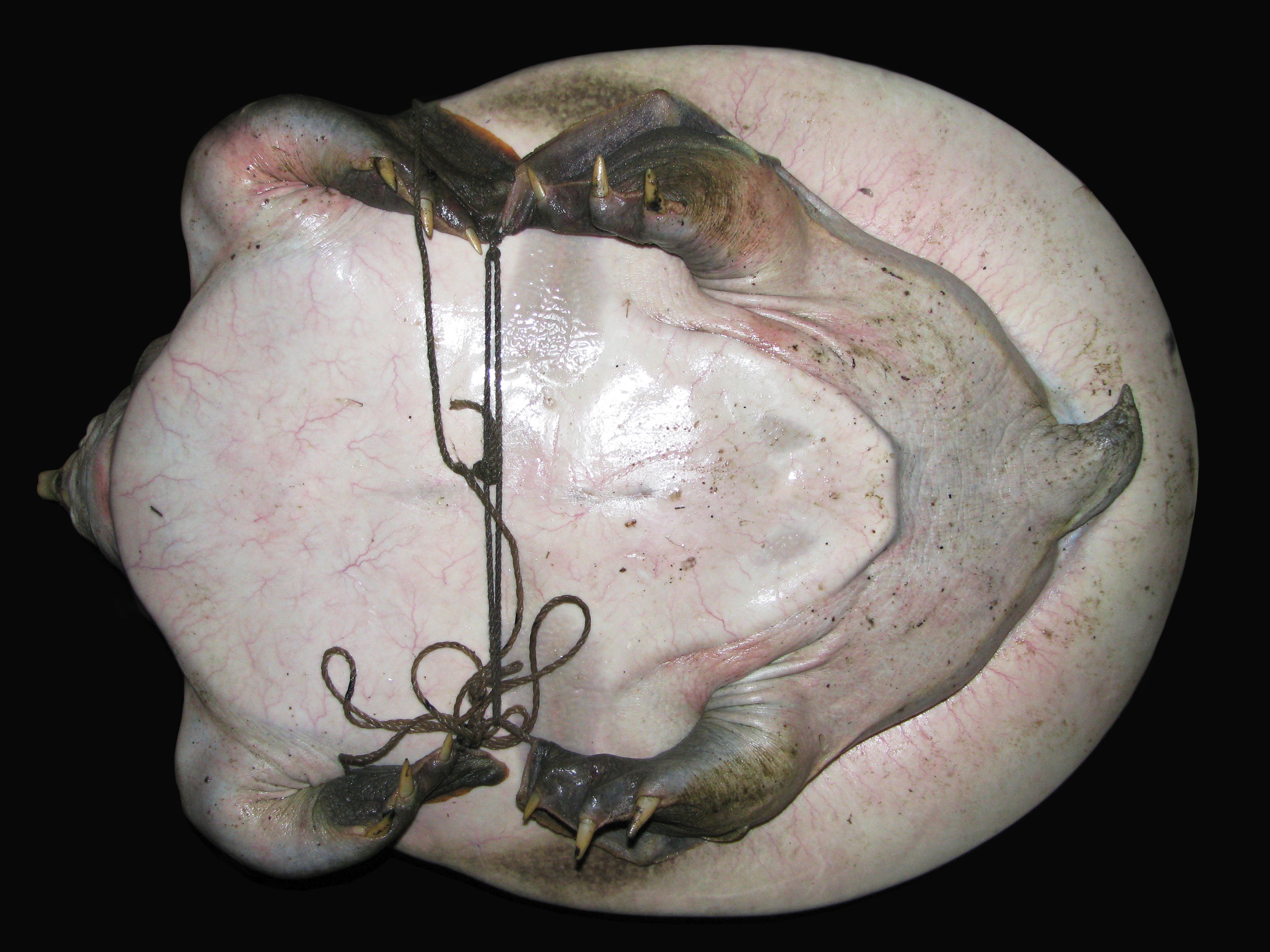 Nilssonia gangetica (synonym Aspideretes gangeticus)